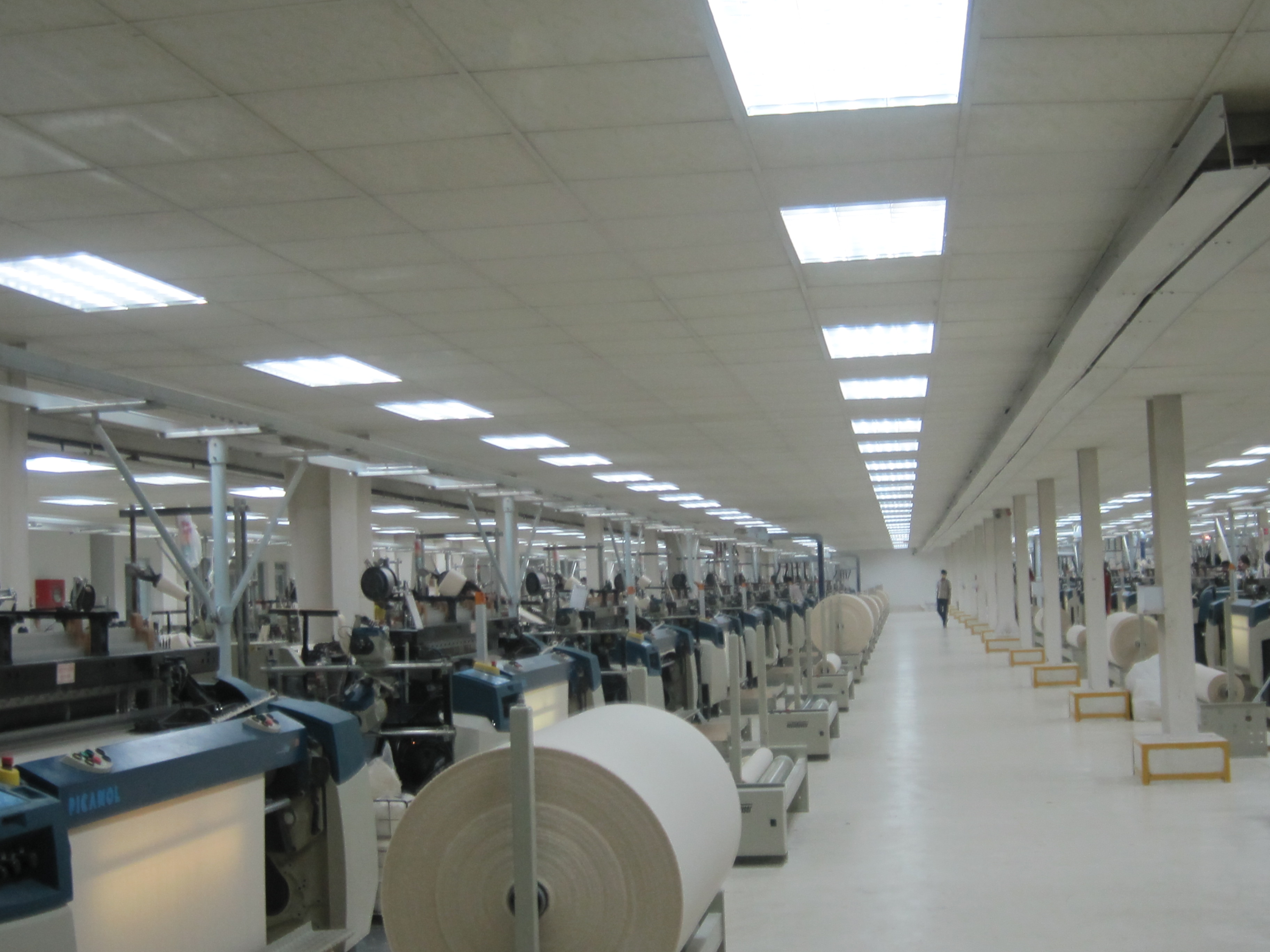 Fabric Production Floor in Bangladesh